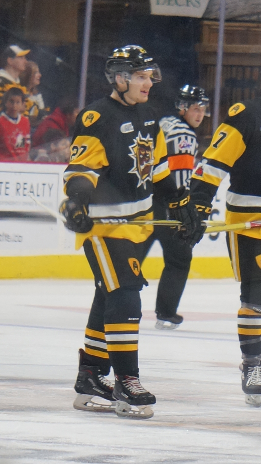 Robert Thomas playing for the Hamilton Bulldogs against the Sarnia Sting in Hamilton on January 28, 2018.